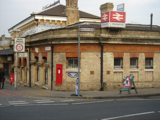 Denmark Hill Station in South London Photo taken by Paul Wicks in January 2006